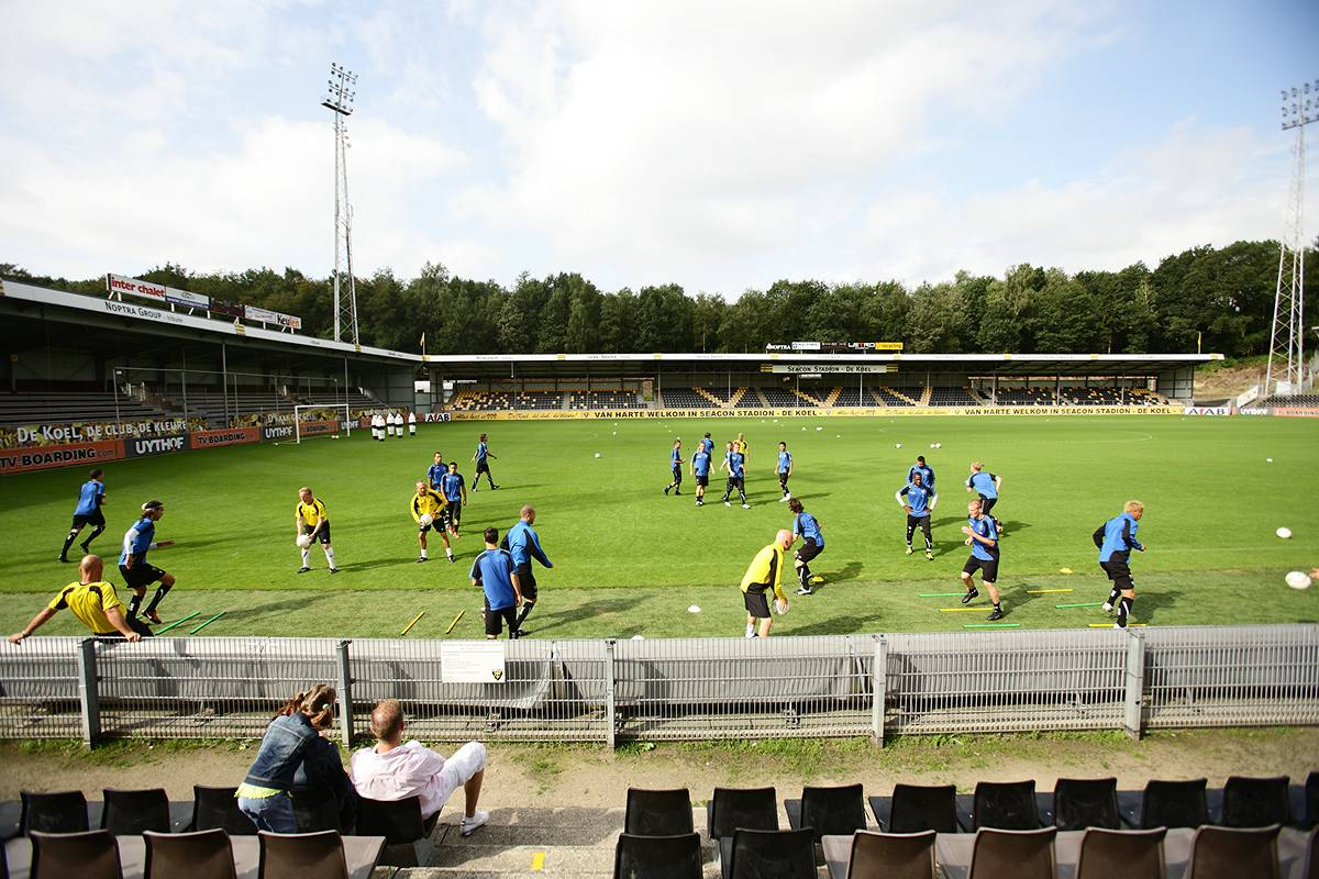 AUGUST 21, 2009 - Football : Keisuke Honda of VVV Venlo during the training session at the De Koel stadium on August 21, 2009 in Venlo, Netherlands. (Photo by Tsutomu Takasu)